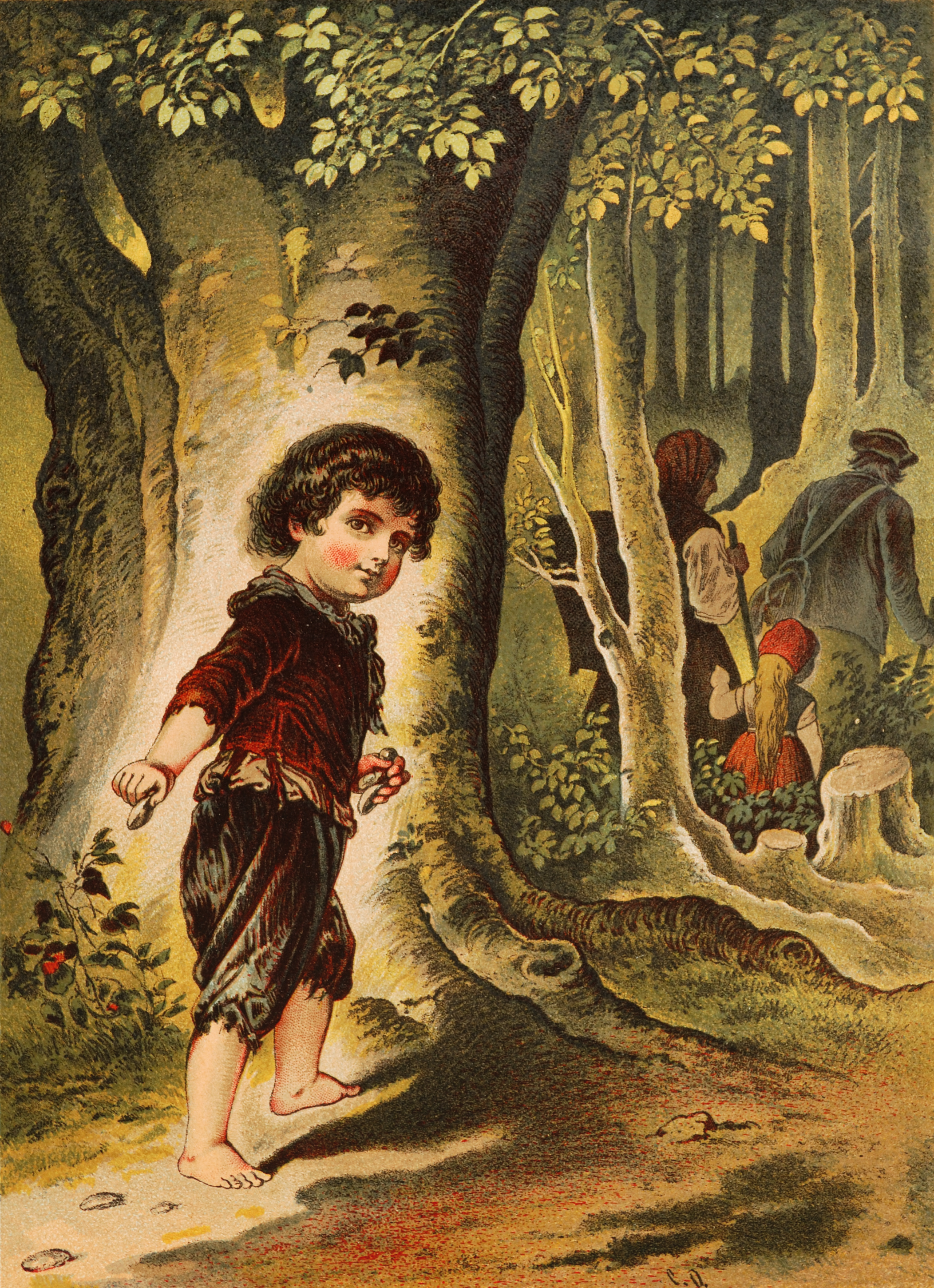 Hansel and Gretel, illustration by Carl Offterdinger